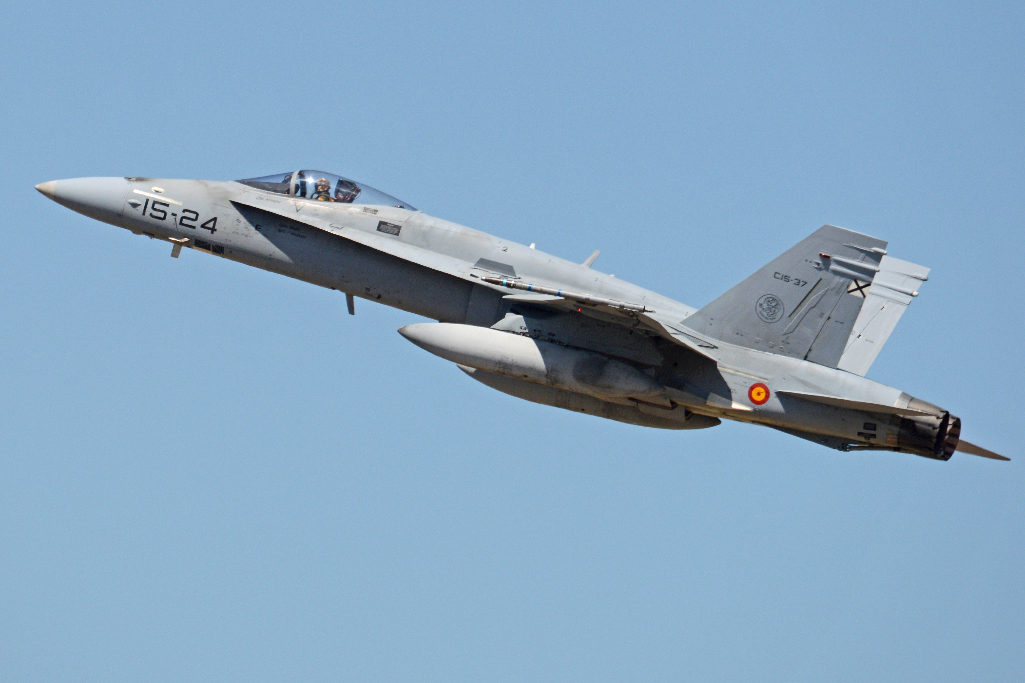 c/n 656, l/n A537. Operated by Ala15, Spanish Air Force and seen during the 2016 NATO Tiger Meet (NTM) held at the unit’s home base. Zaragoza Air Base, Spain. 20th May 2016